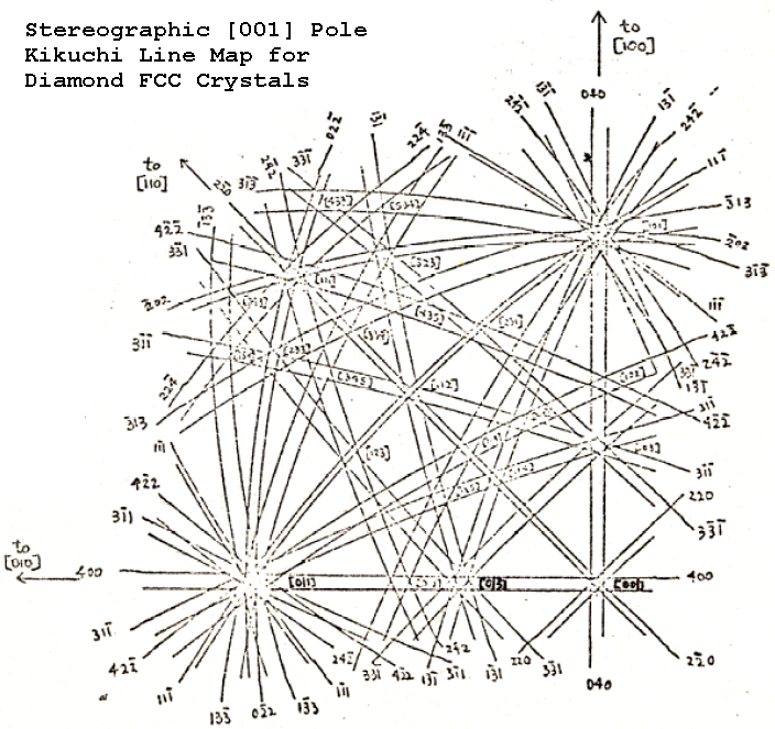 Two asymmetric unit portions of a stereographic [001] Kikuchi line map for diamond face-centered cubic crystals constructed with a beam-compass and a drafting pen, from "Observations of defects in single-crystal Silicon and Germanium", A thesis submitted in partial fulfillment of the requirements for the Degree of Master of Science (Southern Illinois University at Edwardsville, 1974).